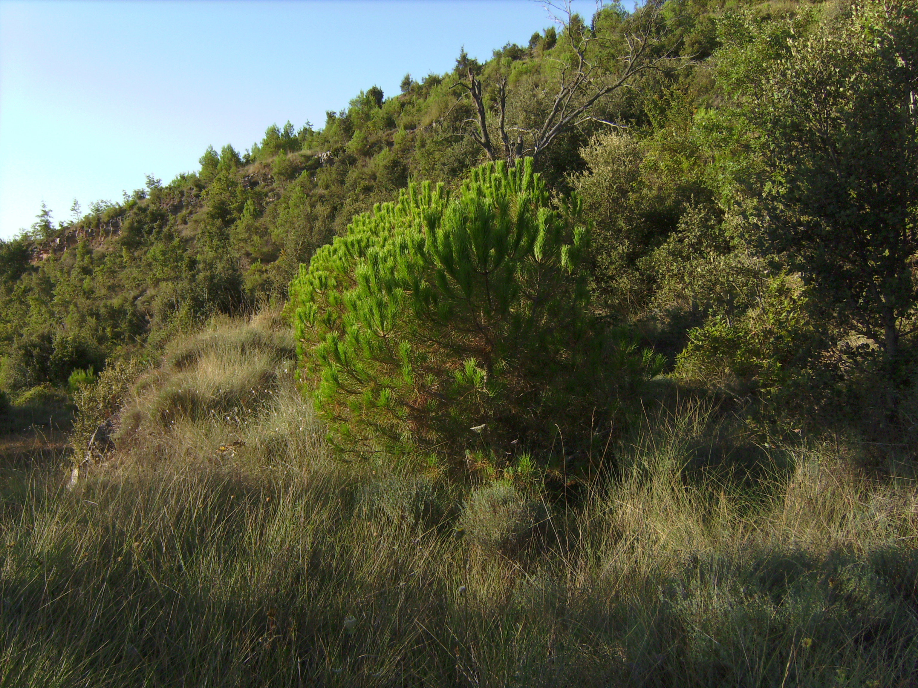 Pinus pinea (born in 1994) with natural form, never pruned, Castelltallat, Catalonia